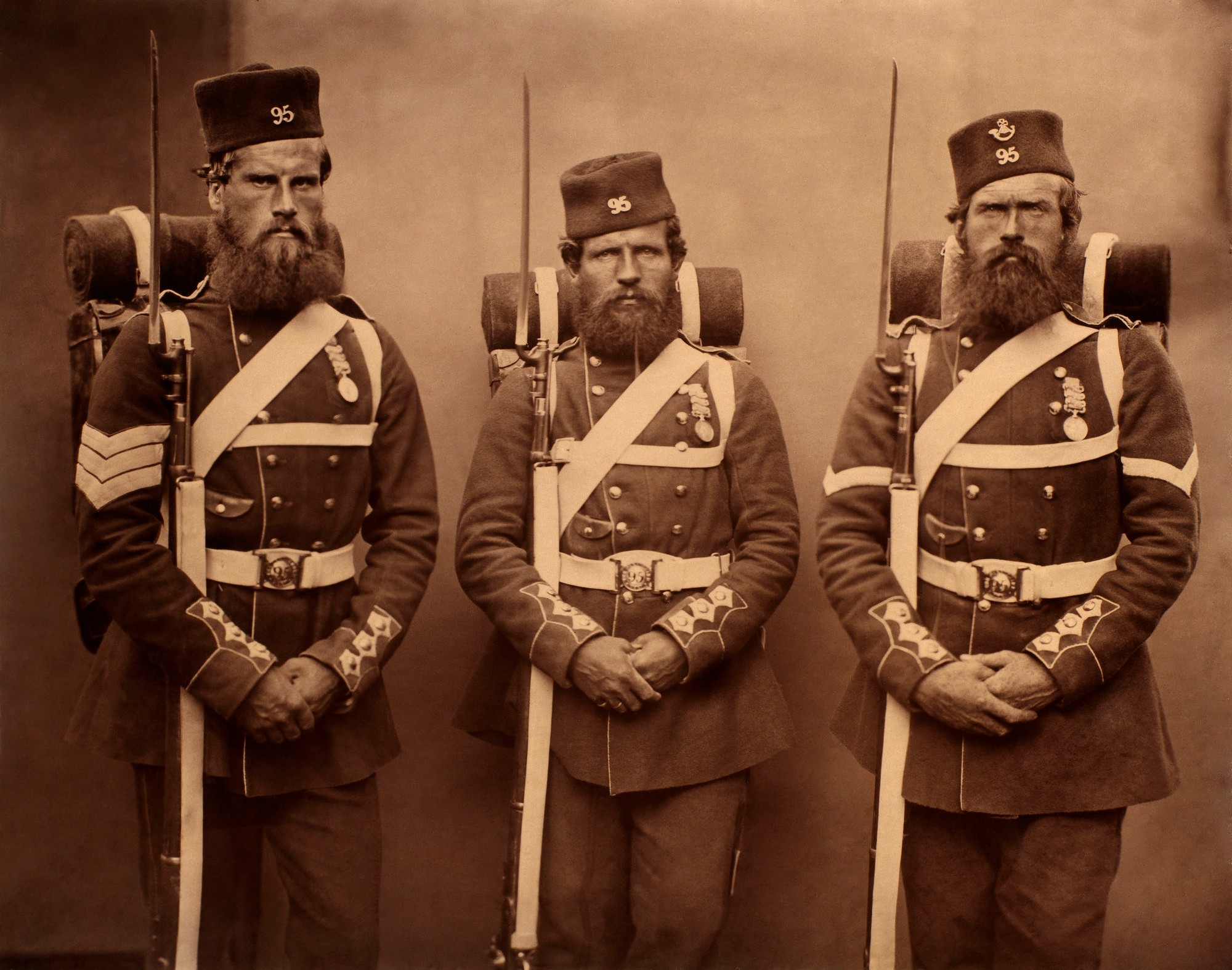 Heroes of the Crimean War: Sergeant John Geary, Thomas Onslow and Lance Corporal Patrick Carthay of the 95th (Derbyshire) Regiment of Foot, in regimental uniform, with pack and rifle with bayonet. From the collection of Queen Victoria of the United Kingdom. Printed in carbon (and pasted over original photograph); 18.7 x 23.4 cm.